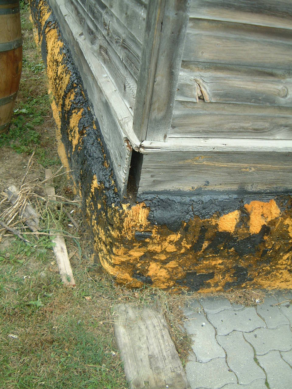 Polyurethane foam insulation at the exterior base of a building at Inniskillin vineyard, Niagara-on-the-Lake, Ontario, Canada. DIN 4102 B3, easily ignited (leicht entflammbar)